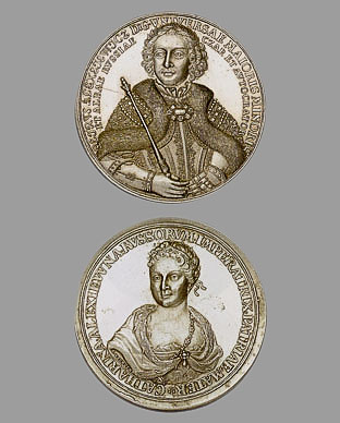 Medal in honour of Peter I and Catherine I. Hermitage